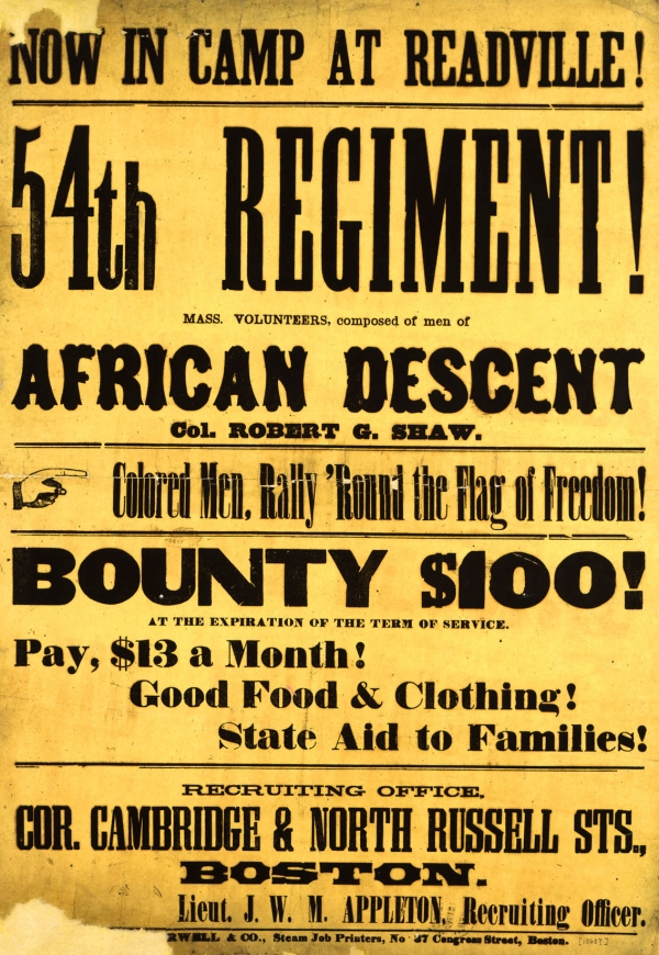 Recruiting poster for the Massachusetts 54th regiment, first published by J. E. Farwell & Co, Boston, 1863.